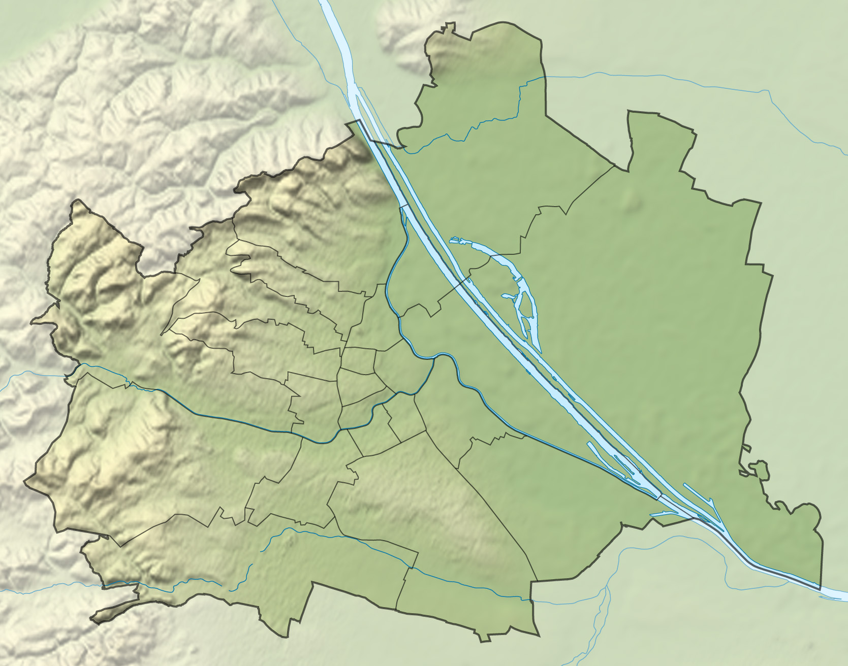 Location map of Vienna Equirectangular projection. Geographic limits of the map: N: 48.33 N S: 48.11 N W: 16.17 E E: 16.59 E